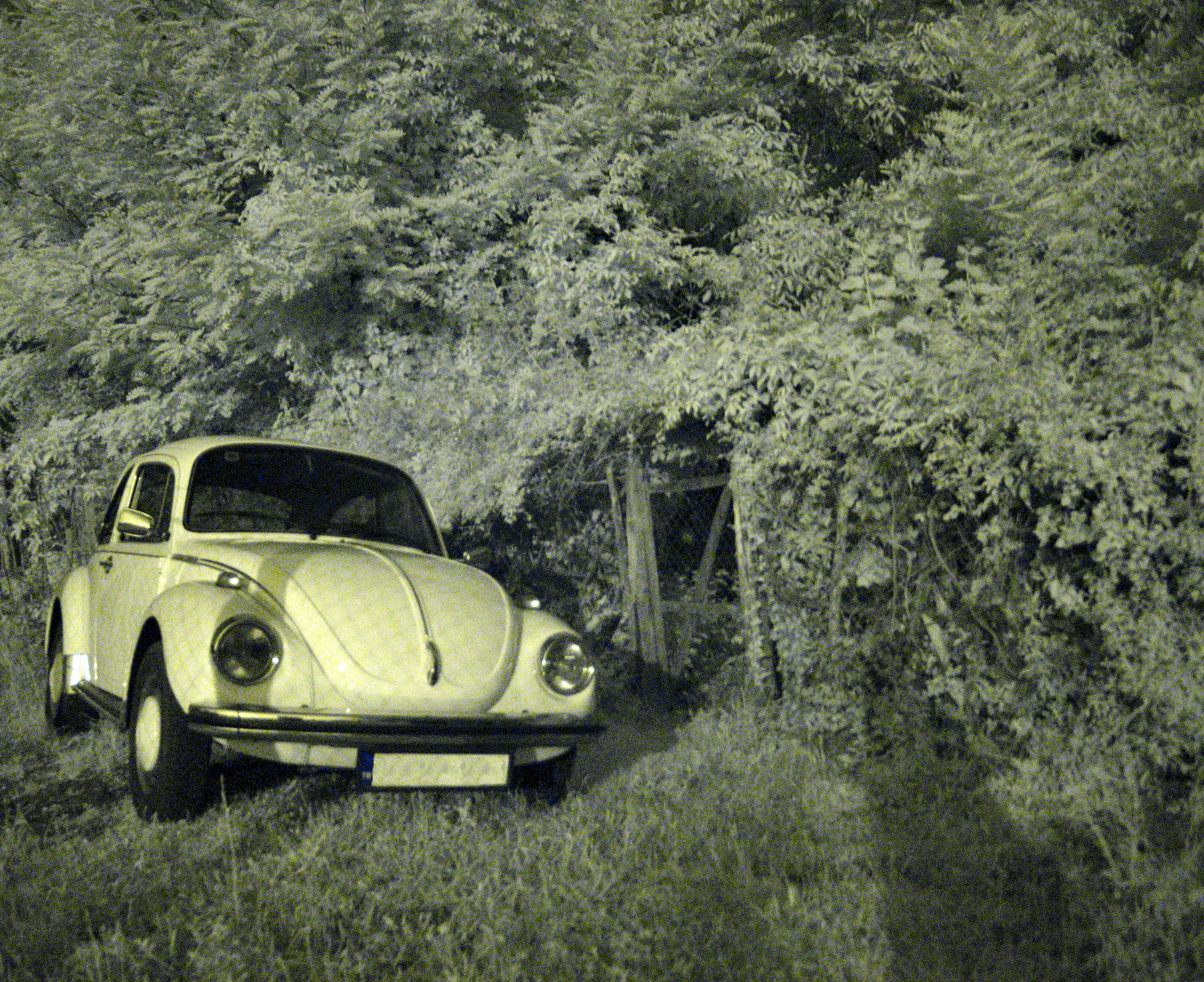 A Volkswagen Beetle 1303S 1973, using an infrared filter.